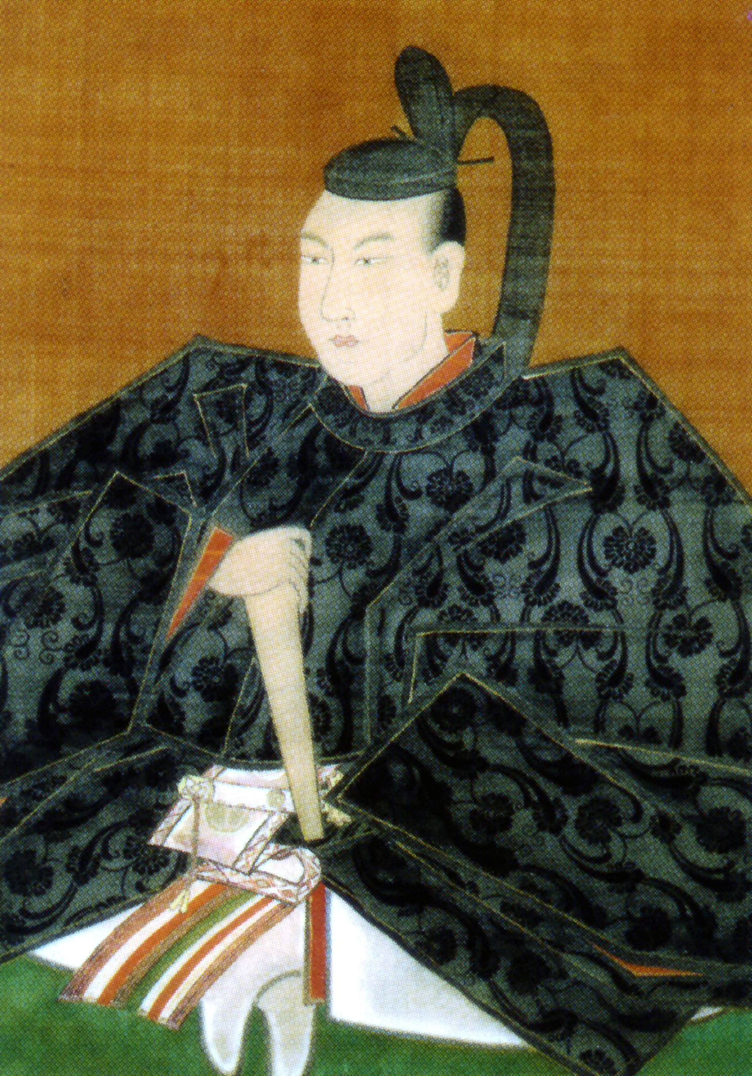 portrait of Ikeda Shigenobu(the 5th feudal lord of Tottori clan)